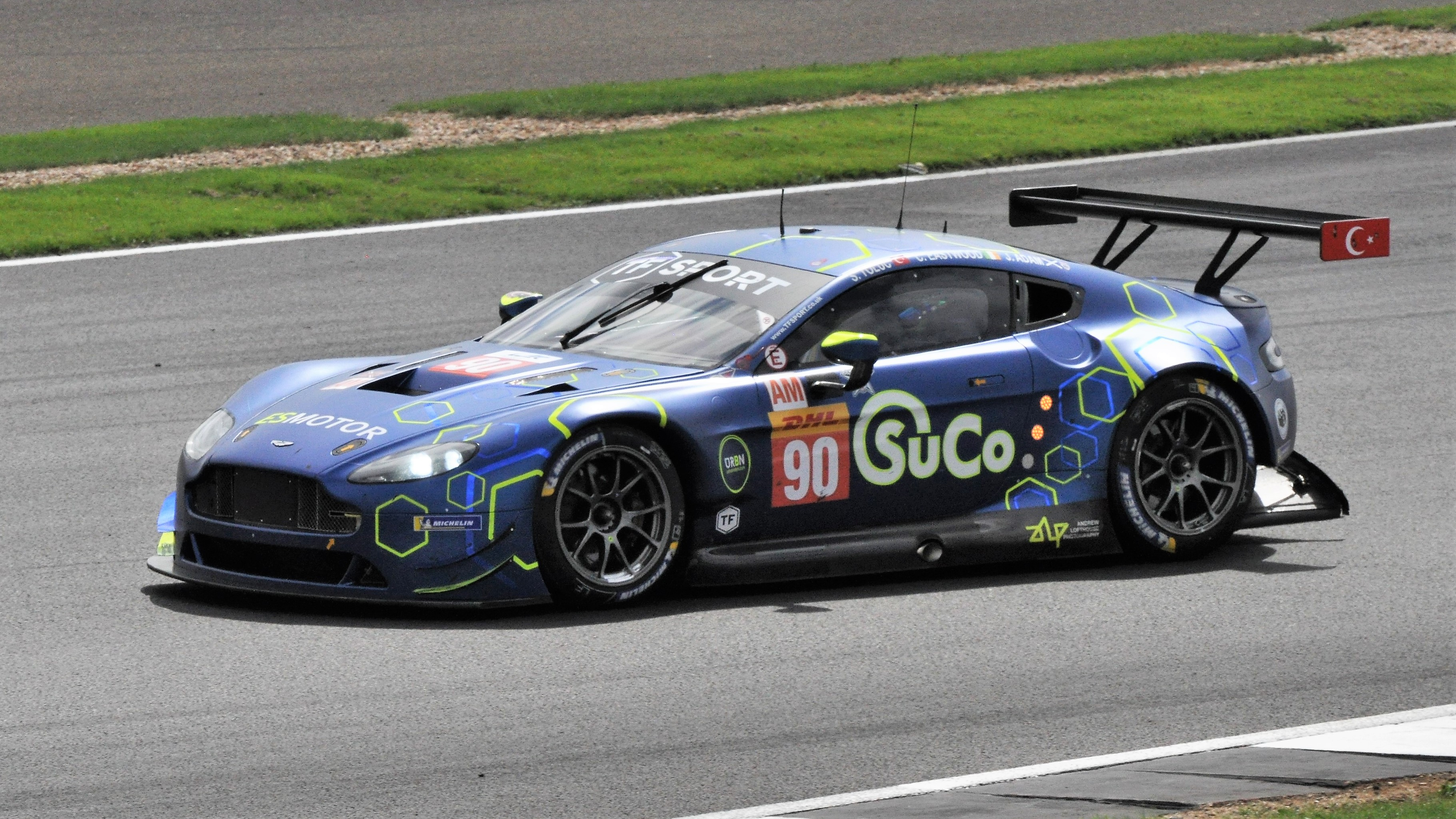 Turkish driver Salih Yoluç turns in to Village corner in the number 90 TF Sport-entered Aston Martin Vantage GTE, during the 2018 6 Hours of Silverstone race. Yoluç and his co-drivers, Charlie Eastwood and Jonathan Adam, eventually finished second in the LMGTE Am class.